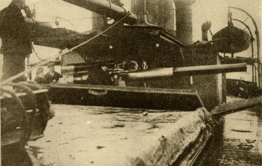 Mystery Ship trapping German Submarines